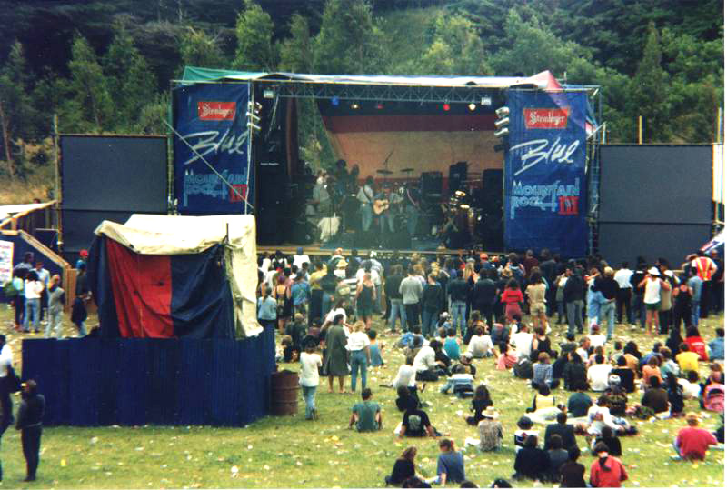 Mana - with lead vocalist Carl Perkins at MountainRock 3 1994 - photo taken and uploaded by Paul Moss, Photographer, Artist, Paul Moss Photographer Artist NZ